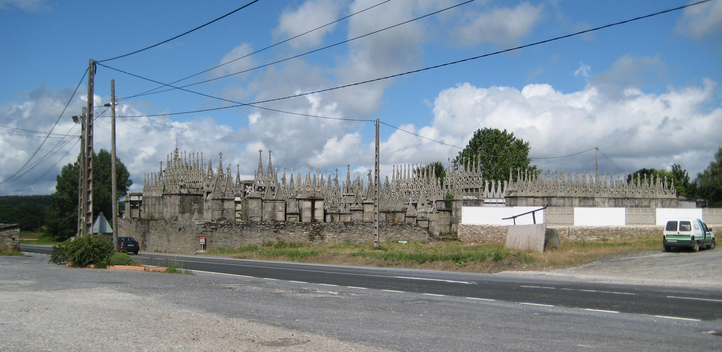 National road 634 and graveyard of Goiriz, Vilalba, province of Lugo, Galicia.